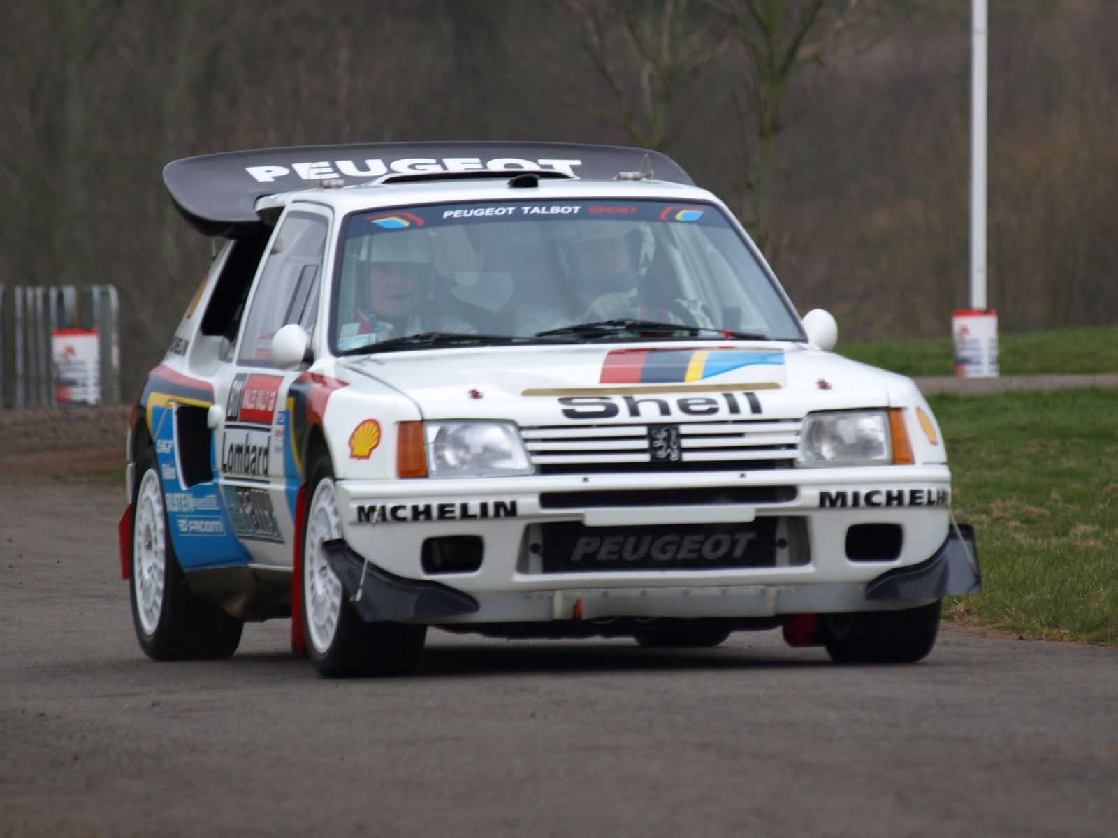 Peugeot 205 Turbo 16 driven at Race Retro 2008, the International Historic Motorsport Show, at Stoneleigh Park, Coventry, England.